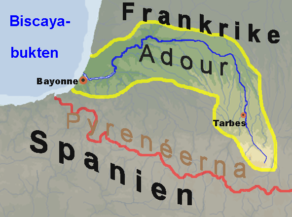 Adour-Swedish version.